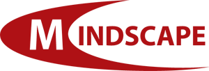 Mindscape logo.